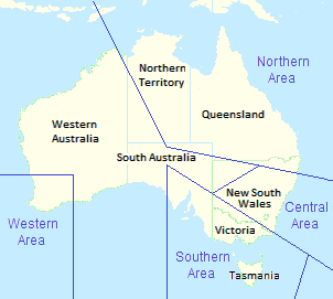 Royal Australian Air Force area commands as proposed February 1940.